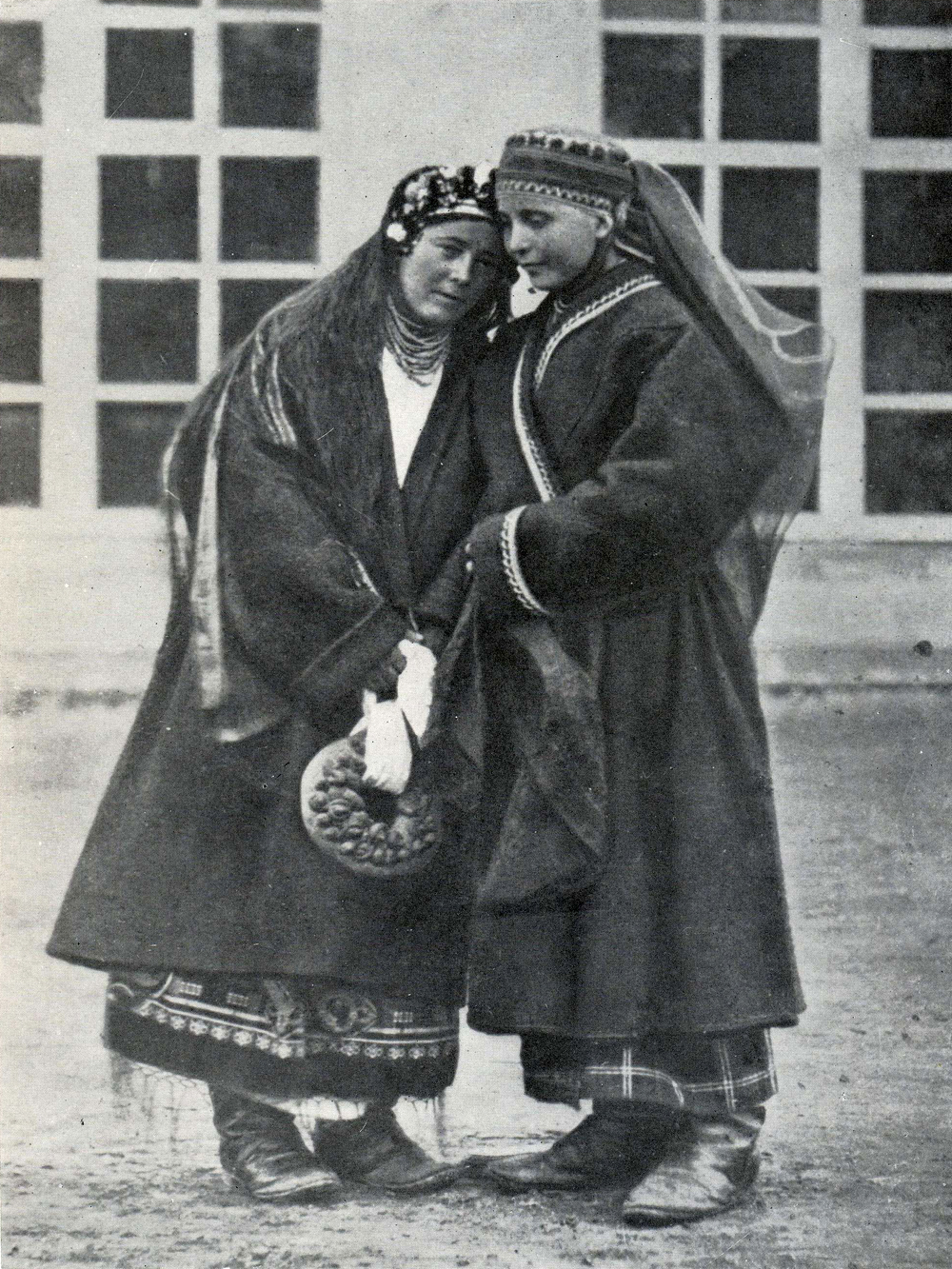 Andrew's Day in Ukraine